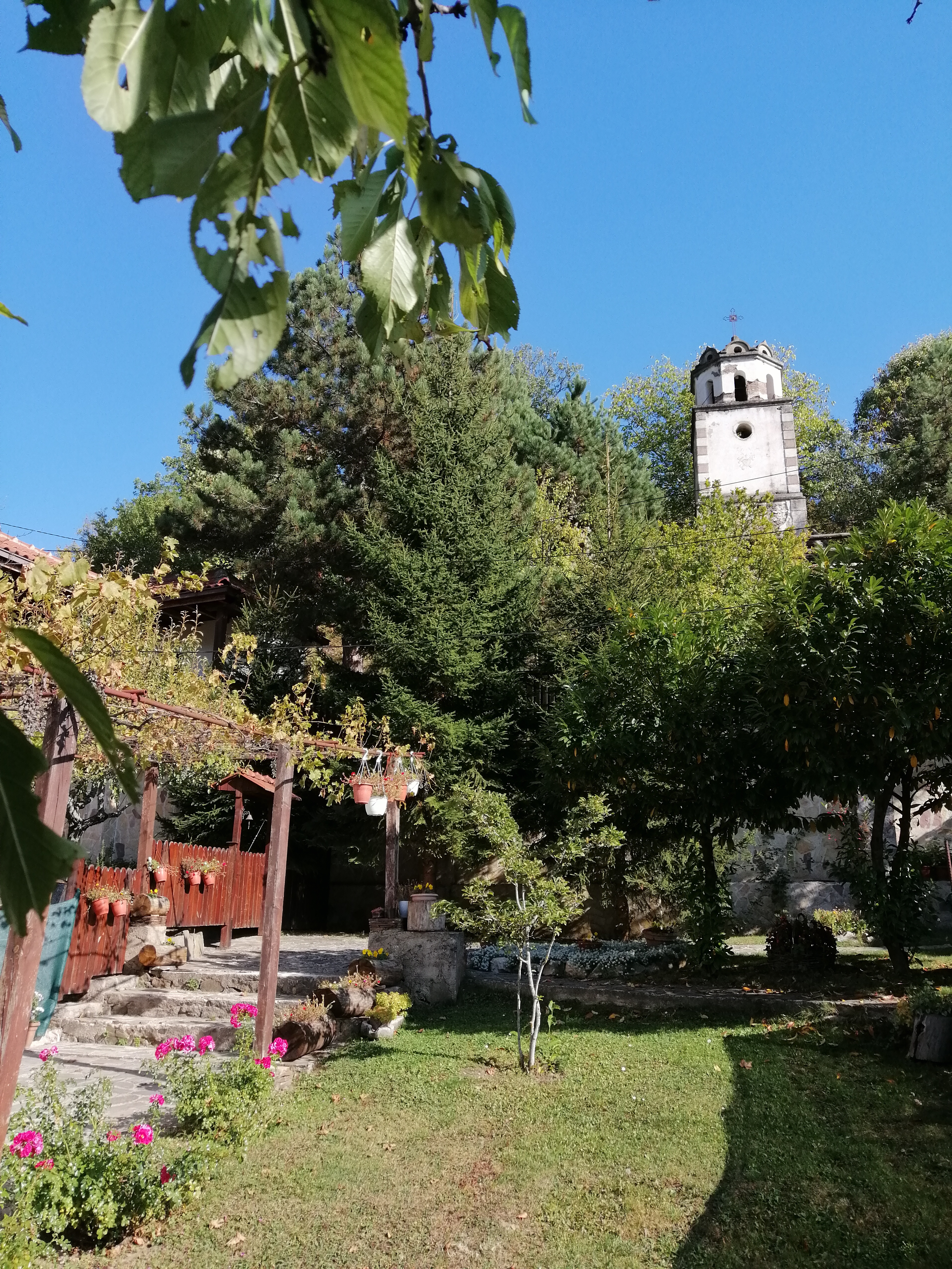 Bell tower of the Ljubanci Monastery